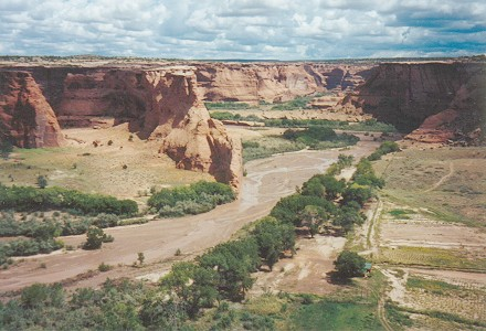 Canyon De Chelly